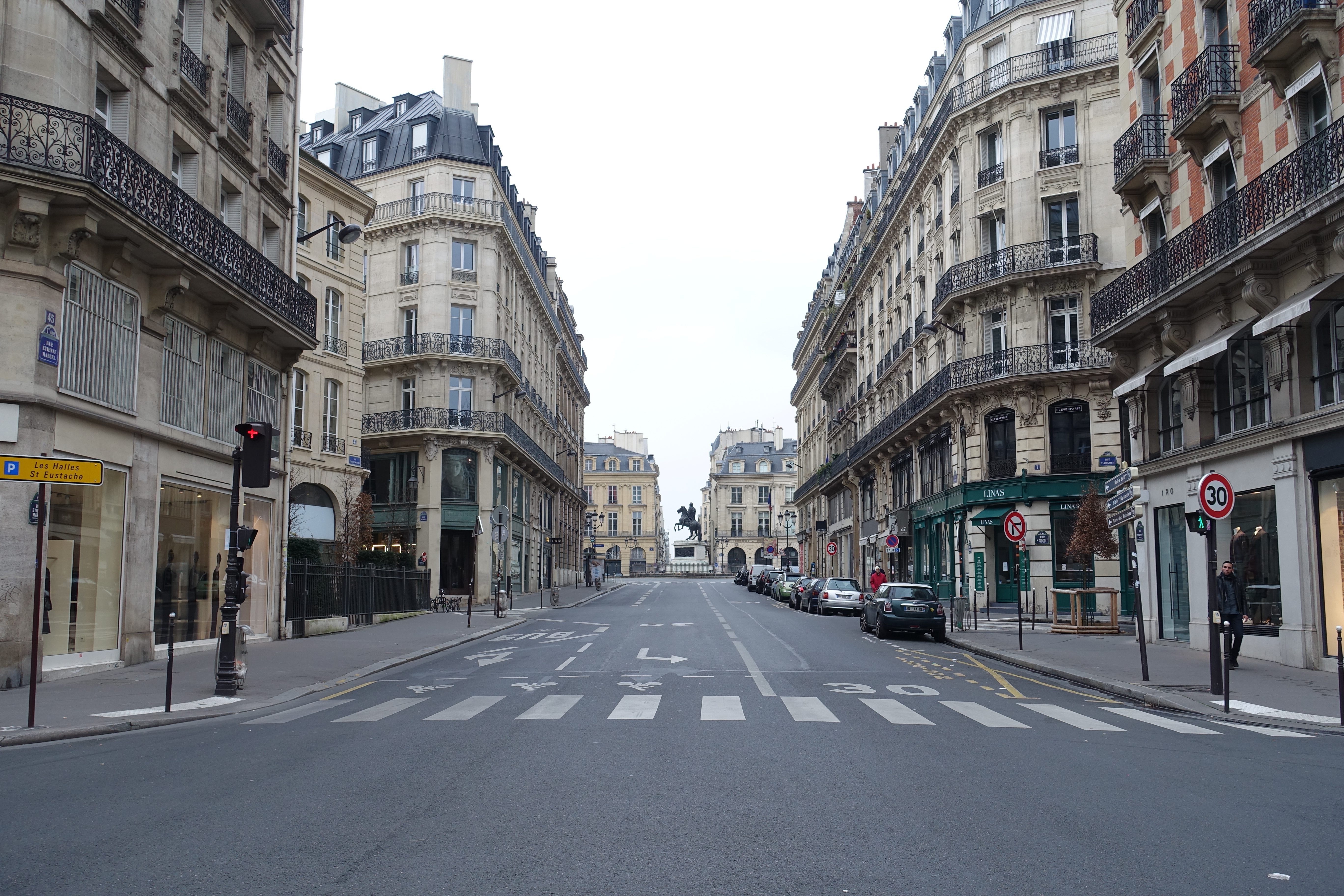 Empty street @ Paris